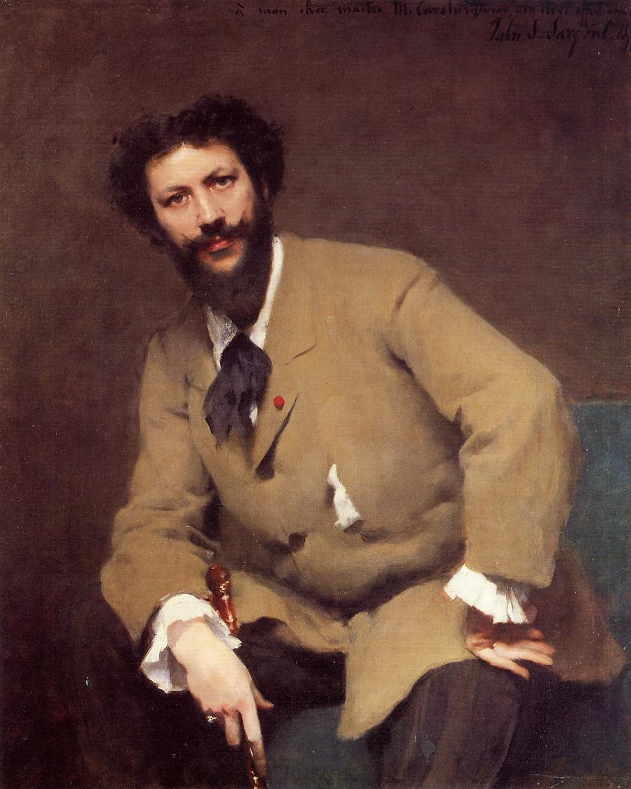 "Portrait of the French painter Charles Auguste Émile Durand (known as Carolus-Duran), by the American artist John Singer Sargent. From the Sterling and Francine Clark Art Institute. Image courtesy of The Athenaeum.